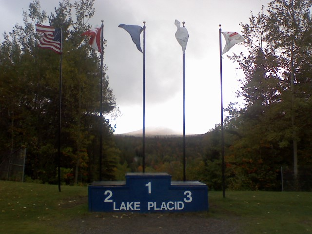 Winners podium at Lake Placid